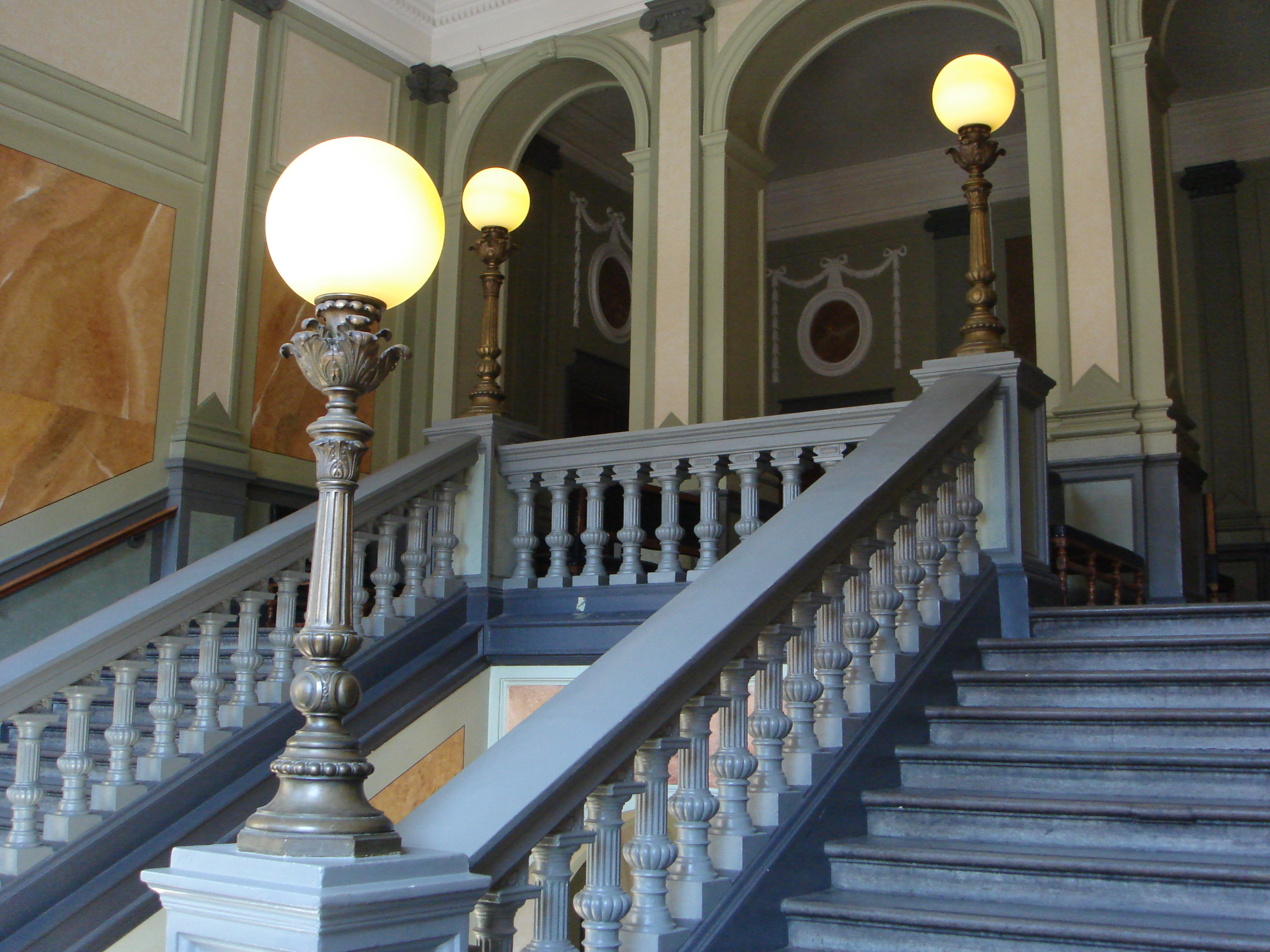 Photo of the stairways at the old Norrlands nation building. Uppsala.